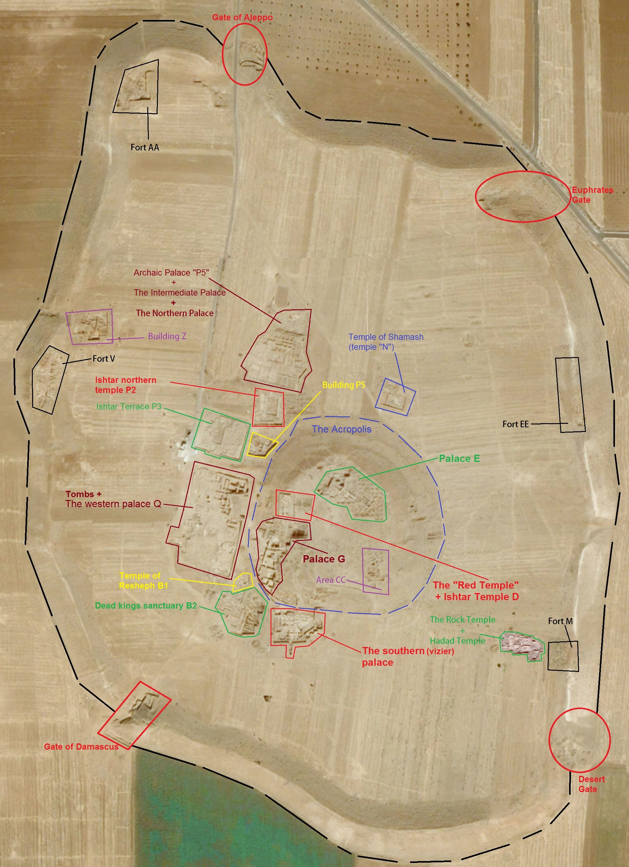 sites and buildings of Ebla.